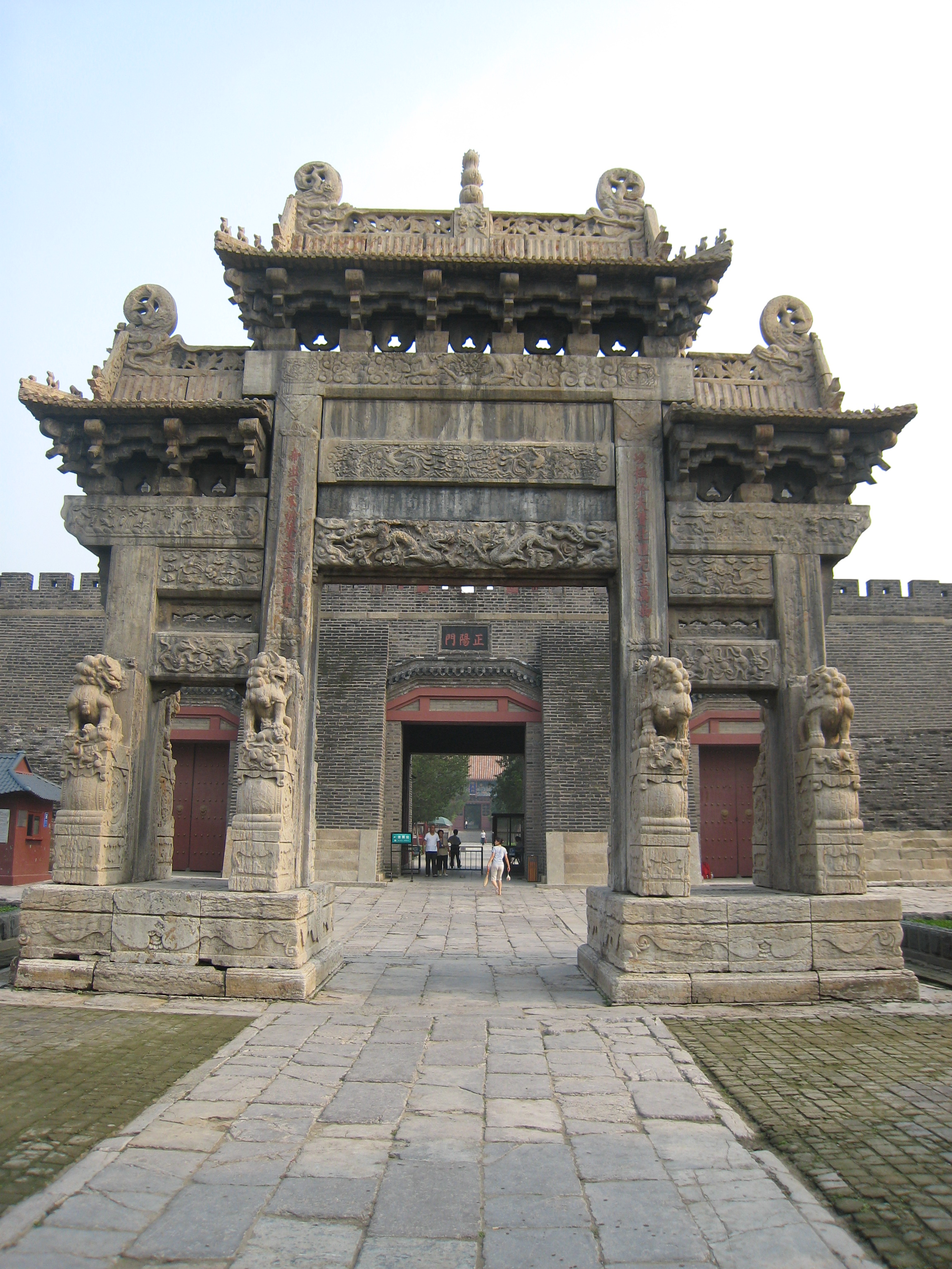 Dai Temple in Mount Tai, Tai'an, Shandong, China